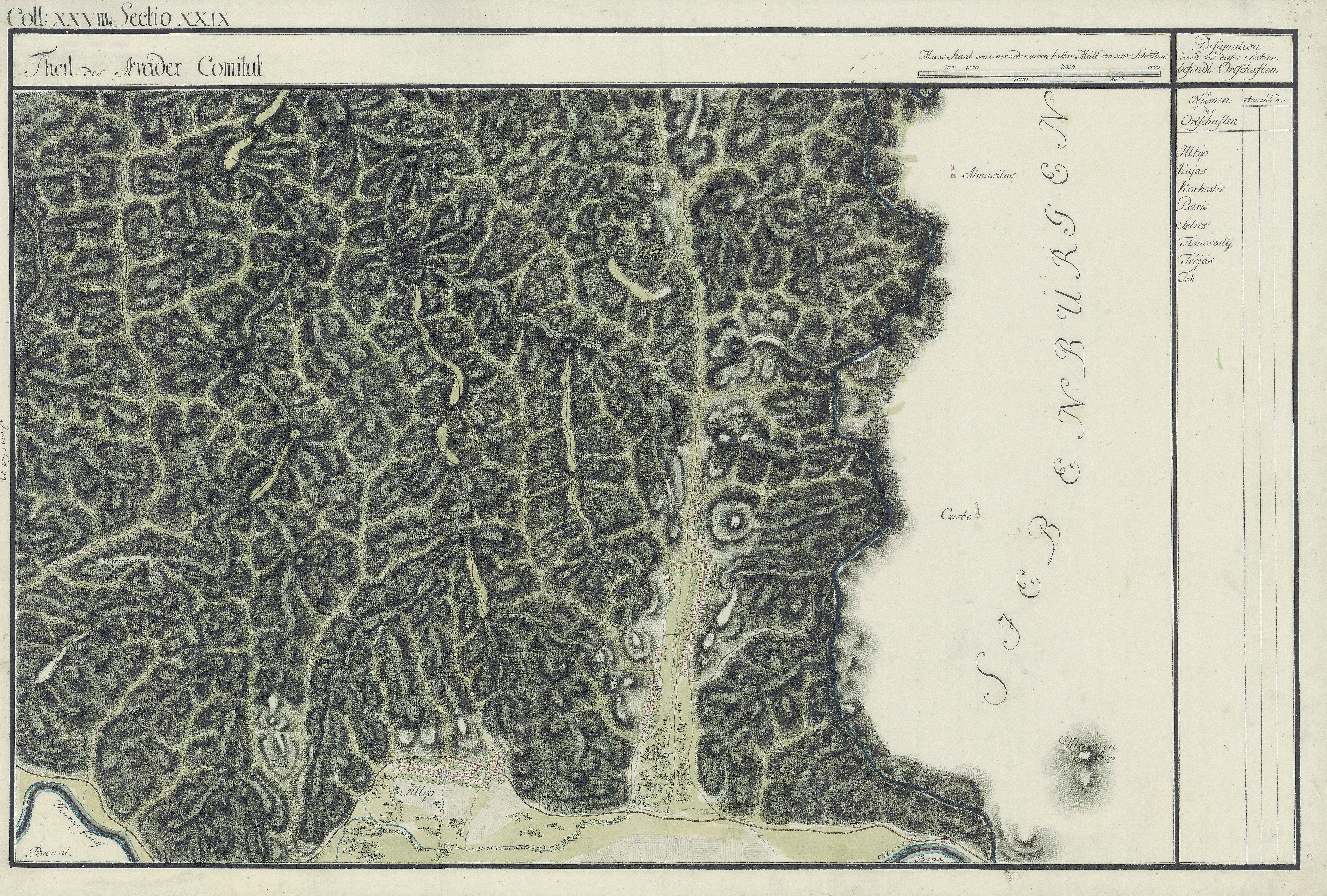 Arad County, 1782-85. Josephinische Landesaufnahme pg.28-29